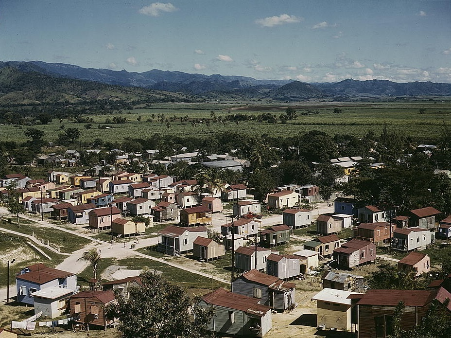 A land and utility municipal housing project, Ponce, Puerto Rico (LOC)